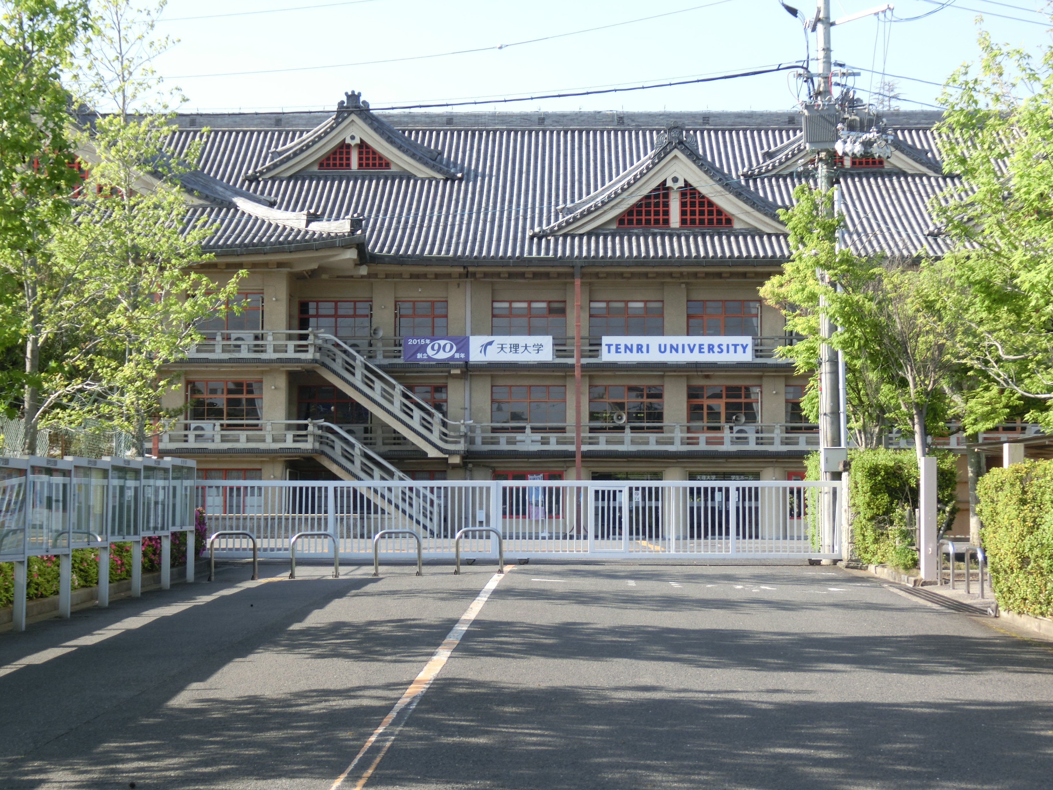 Tenri University Hall No.4